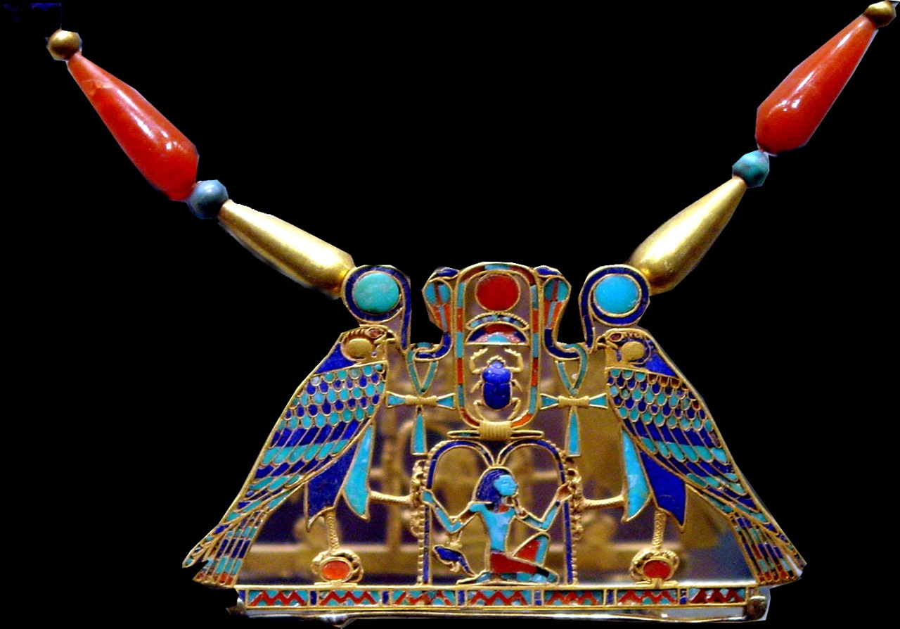 This Middle Kingdom pectoral was found in the tomb of Princess Sit-Hathor Yunet, the daughter of Pharaoh Senusret II, of the Middle Kingdom. It bears the name 'Khakheperre' which was the prenomen or royal name of this Egyptian king. Senusret II is notable for founding the town of Kahun during his reign. This jewellry is now located in the Metropolitan Museum of Art in New York and was made of cloisonné inlays on gold of carnelian, feldspar, garnet, turquoise, lapis lazuli. See [1]